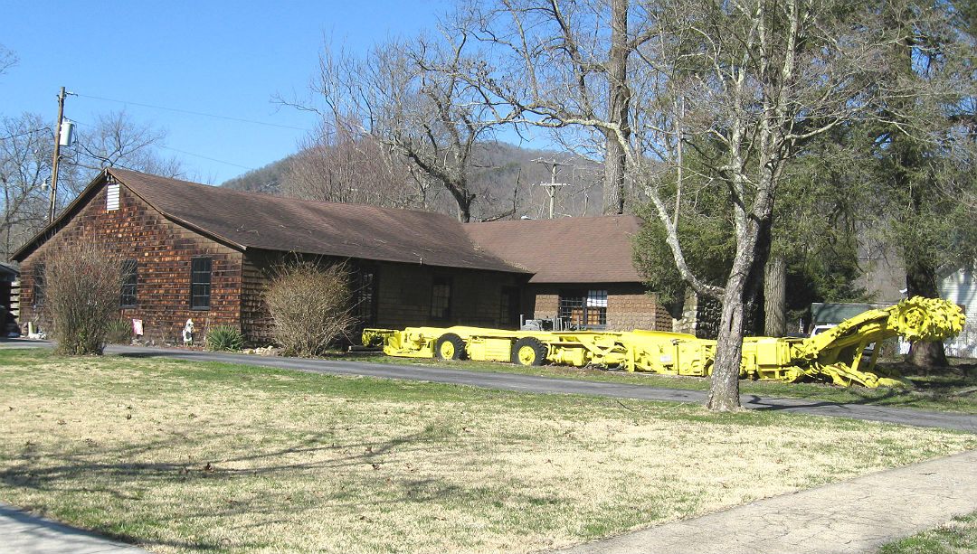 An old excavator sits outside the Henry Meador Coal Mining Museum at Big Stone Gap, Virginia.